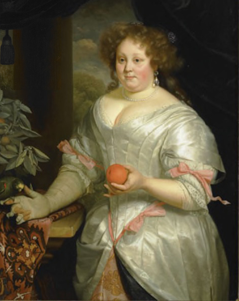 dated 1679